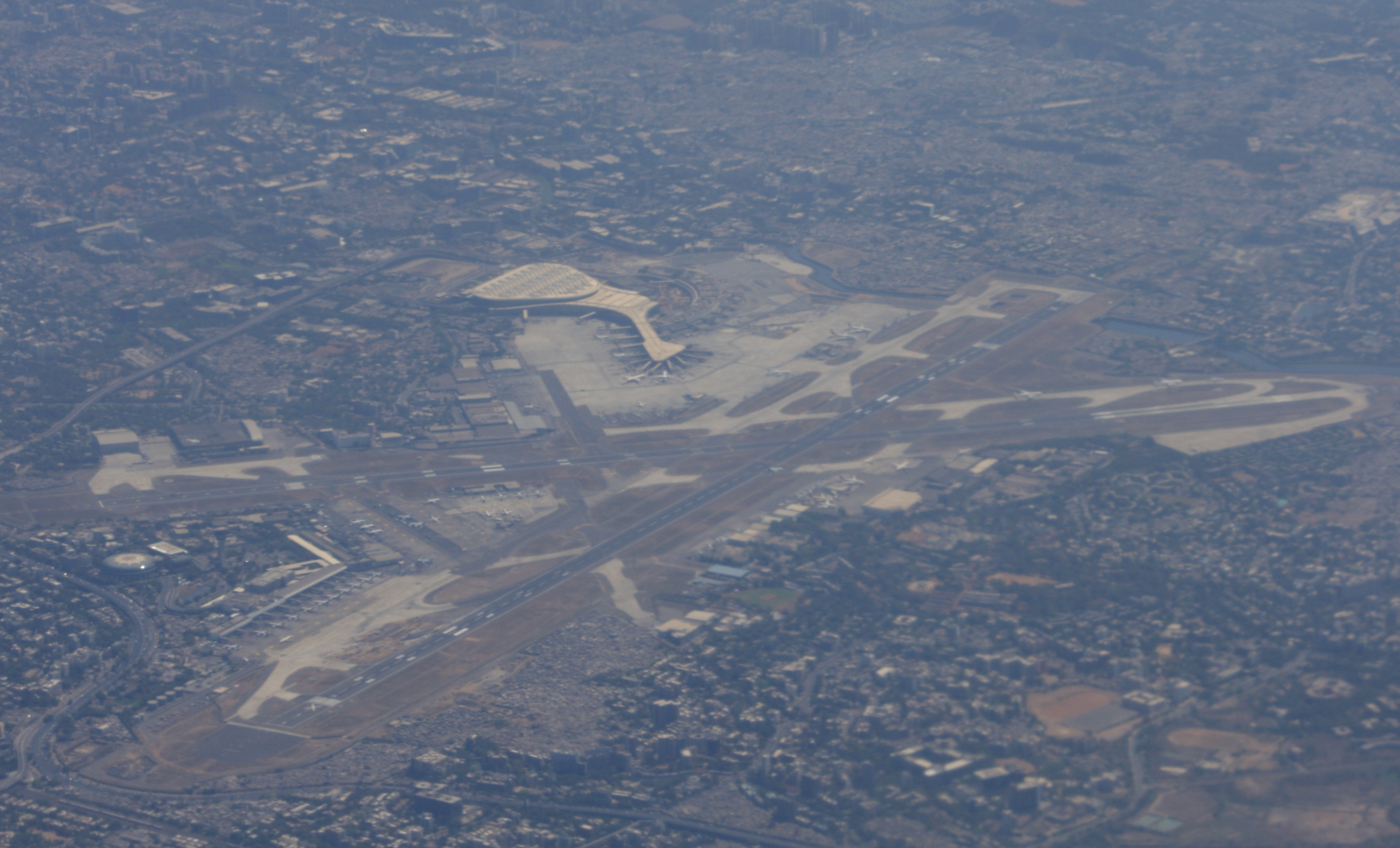 photo taken from G-STBA Boeing 777-336ER (cn 40542/879)) British Airways, BA199, April 12 2014.